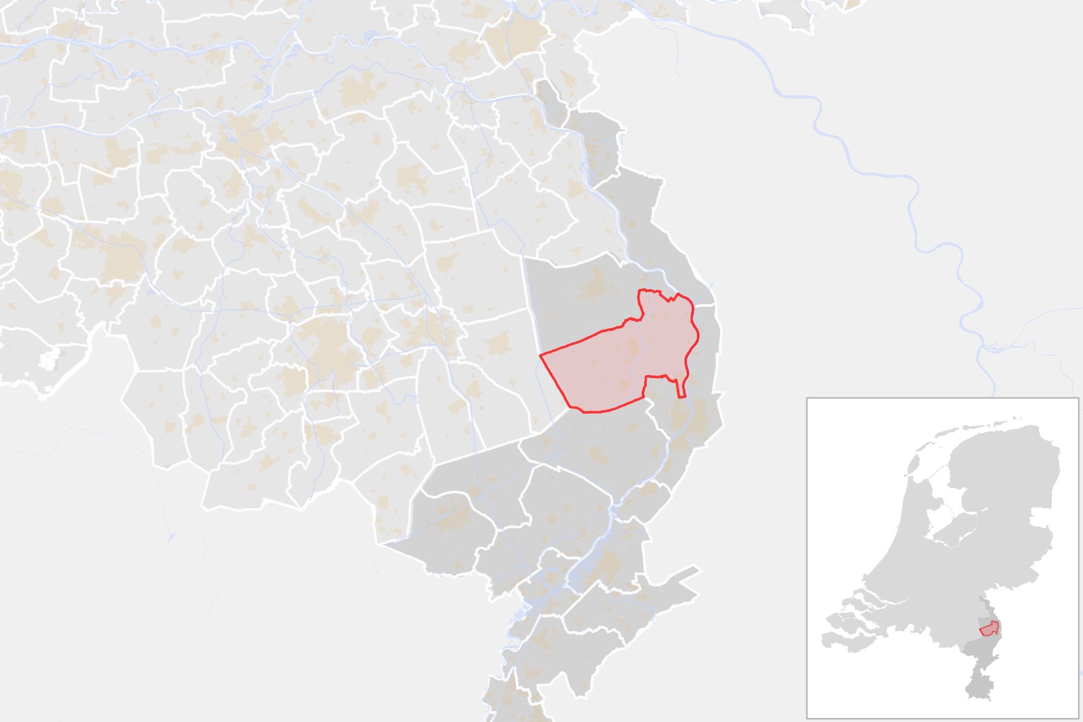 Locator map showing municipality boundary of one of the 390 Dutch municipalities (as of 2016)